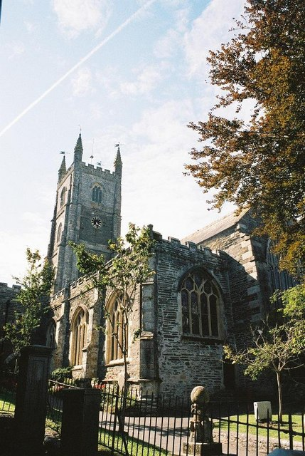 Fowey: parish church of St. Finbarrus A church with an unusual dedication.